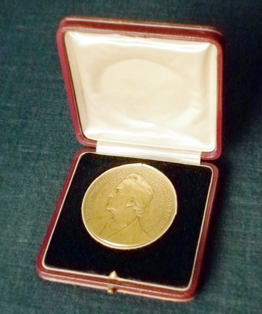 Liebig-Denkmünze , the honory medal of the «Gesellschaft Deutscher Chemiker» [1] that was conferred to Rudolf Knietsch 1904.